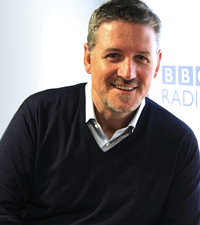 This is a photo of Joe Cross.